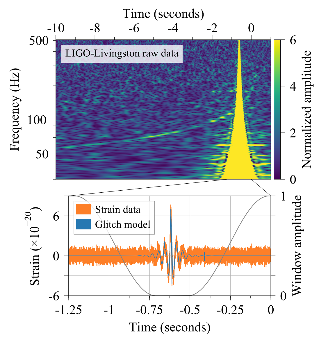 The top panel shows the glitch in the LIGO-Livingston data, and also clearly shows the binary chirp as well. The lower panel shows the strain (the quantity we use to describe the strength of signals in LIGO and Virgo) of the glitch in time. It is narrow (lasting only about 1/4 of a second), but very strong. Mitigation reduces the glitch to the level of the orange trace, which is the background noise that is always present in detectors like LIGO.